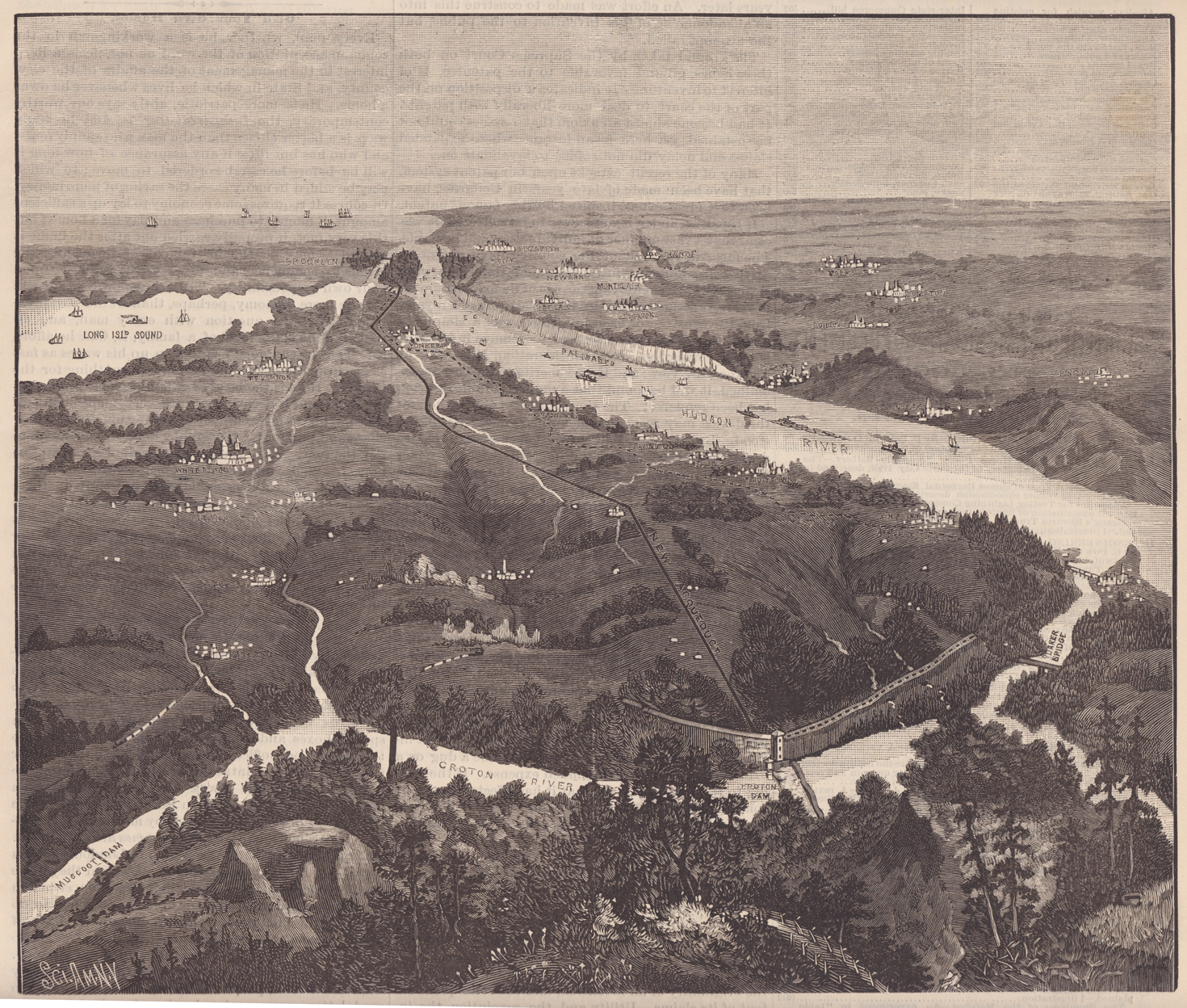 The engraving from the June 4, 1887 issue of Scientific American that shows the old (dotted line) and the new (solid line) Croton Aqueduct. This is looking south from Putnam County with the Old Croton Dam over the Croton river on the near side and Manhattan on the far side.